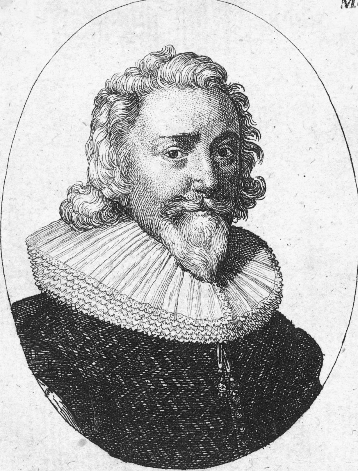 Cropped version of line drawing by Wencesal Hollar